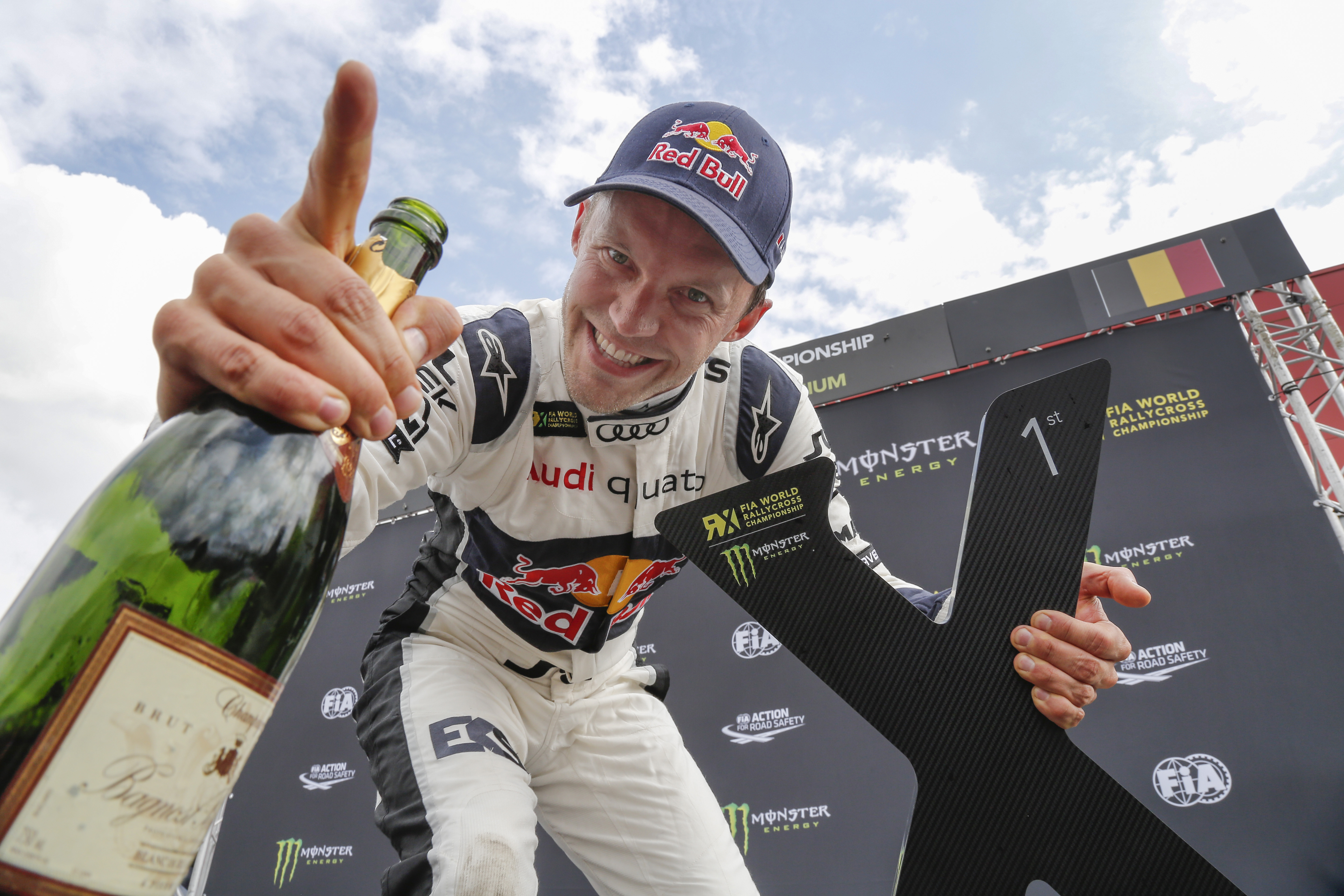 Worldwide Copyright: EKS/McKlein